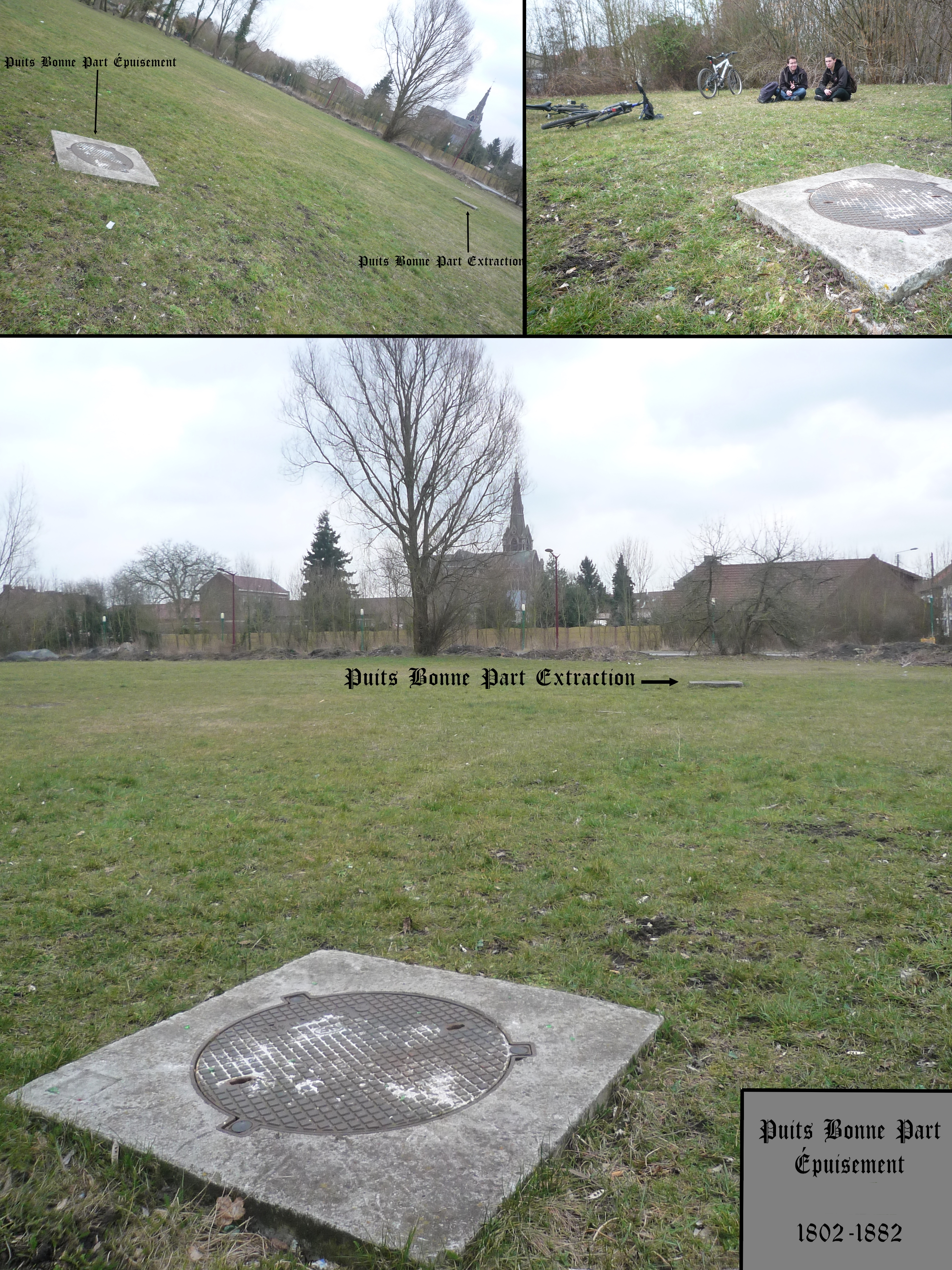 Pit Bonne Part, Compagnie des mines d'Anzin, Fresnes-sur-Escaut, Nord, Nord-Pas-de-Calais, France.